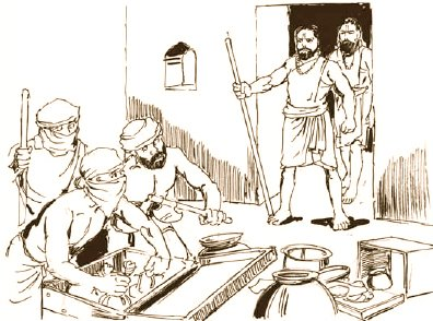 kalyan swami